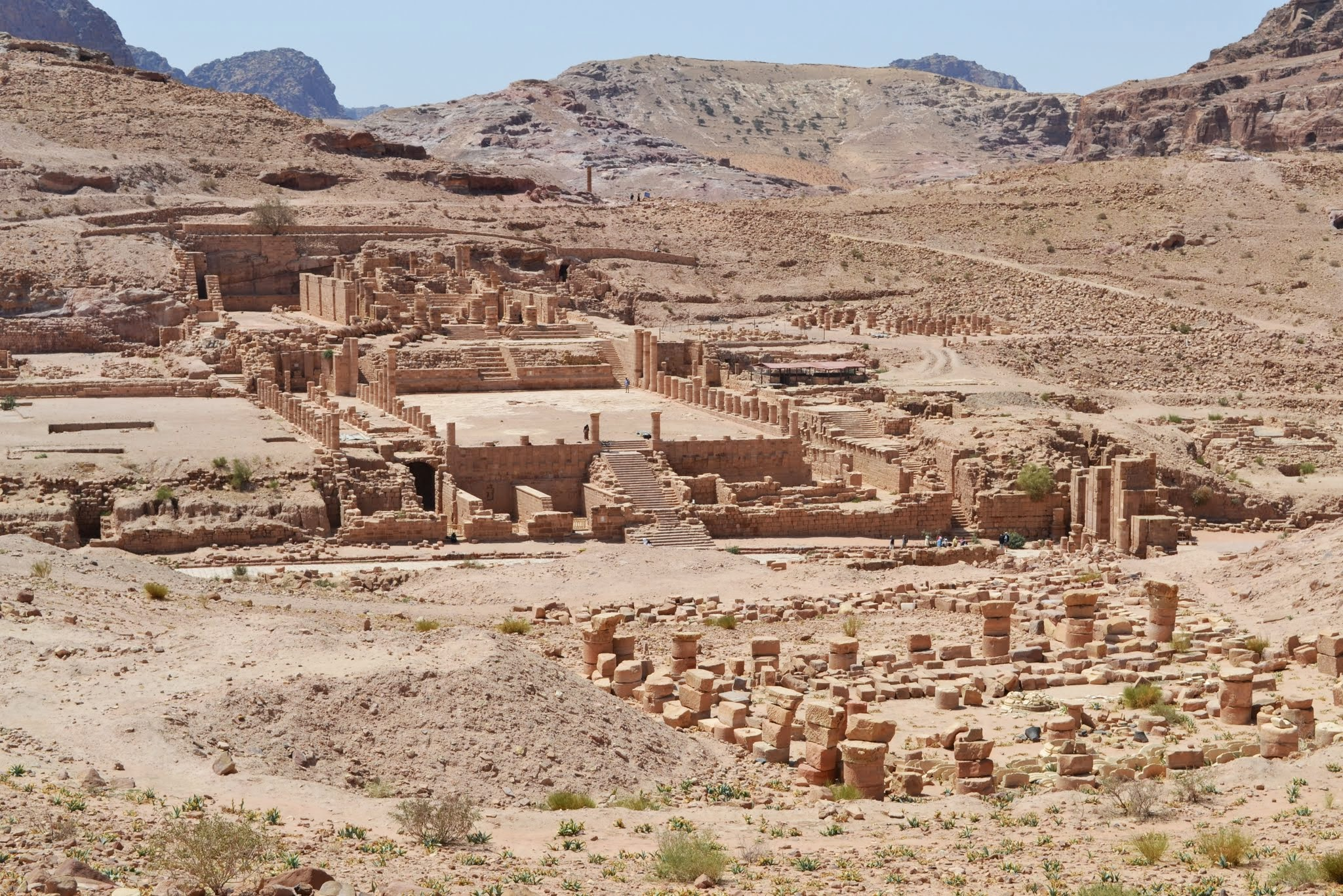 20 Petra Monastery Trail - A View of Petra